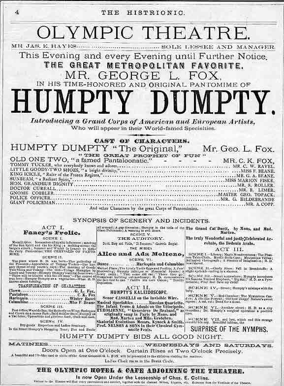 Humpty Dumpty at the Olympic Theatre in New York 1868